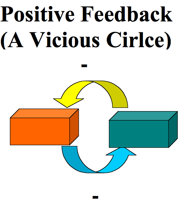 Positive feedback loop, vicious circle